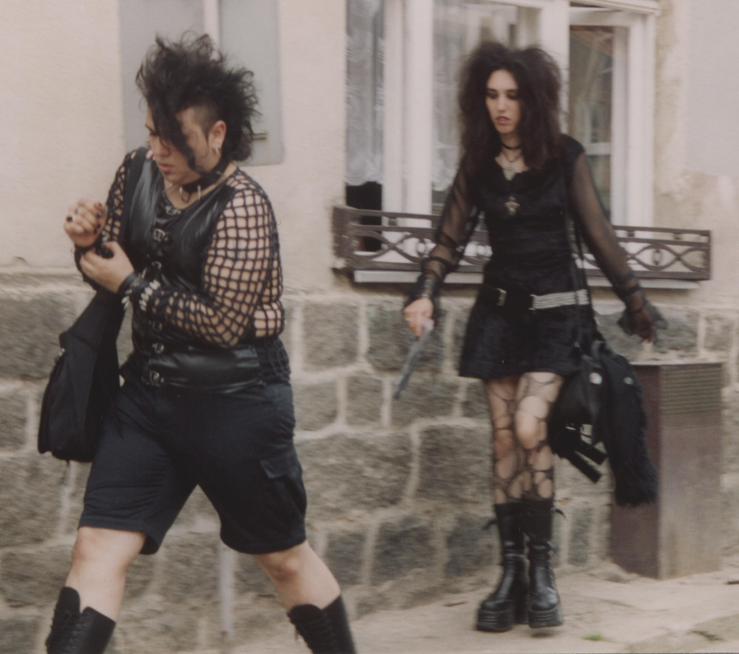 Author: User:Pleple2000 Date: August 2003